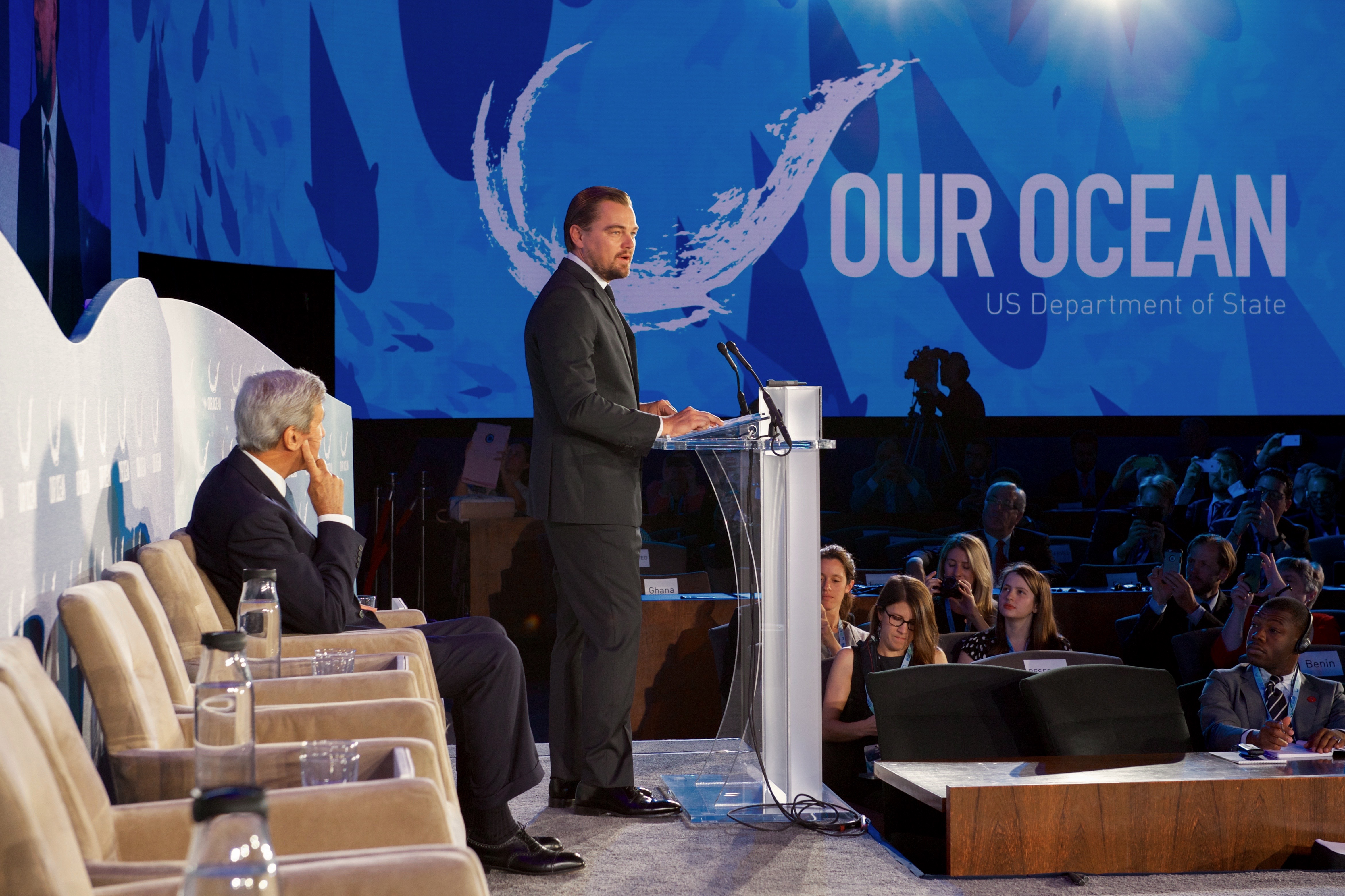 U.S. Secretary of State John Kerry watches actor and environmentalist Leonardo DiCaprio on September 15, 2016, as he addressed the third Our Ocean Conference at the U.S. Department of State in Washington, D.C. [State Department Photo/ Public Domain]